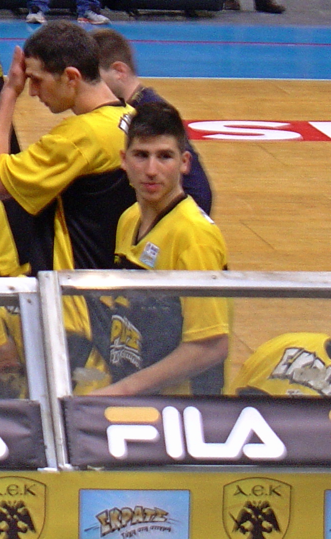 Moraitis with AEK Athens in 2016